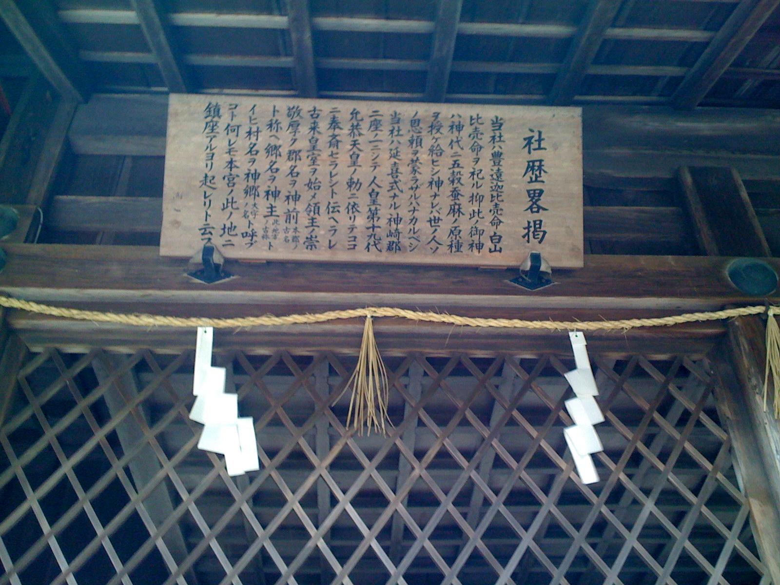 The Oka-jinja(Shinto shrines) Information in Higashiomi, Shiga, Japan